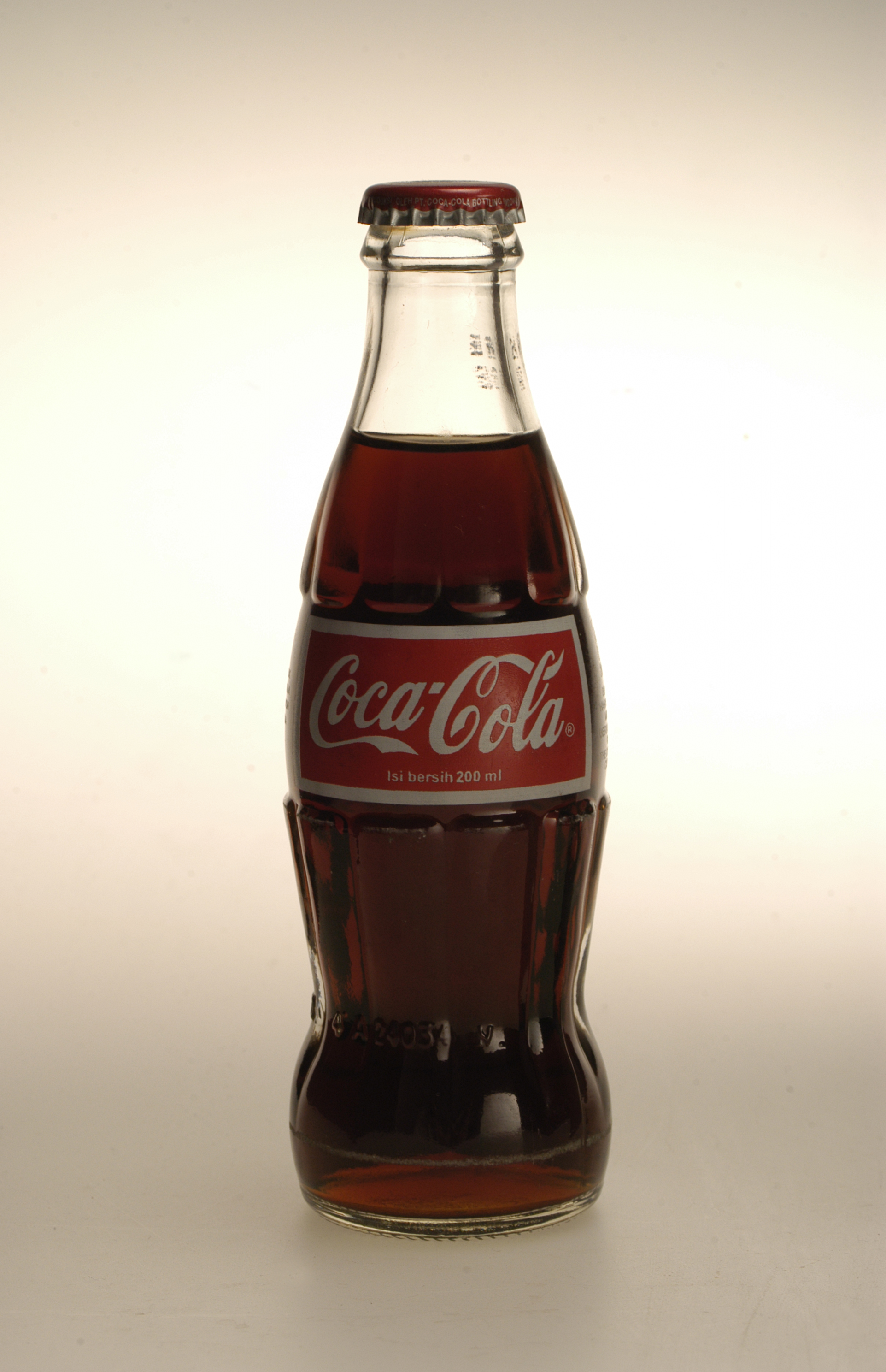 Coca Cola (bottle) sold in Indonesia